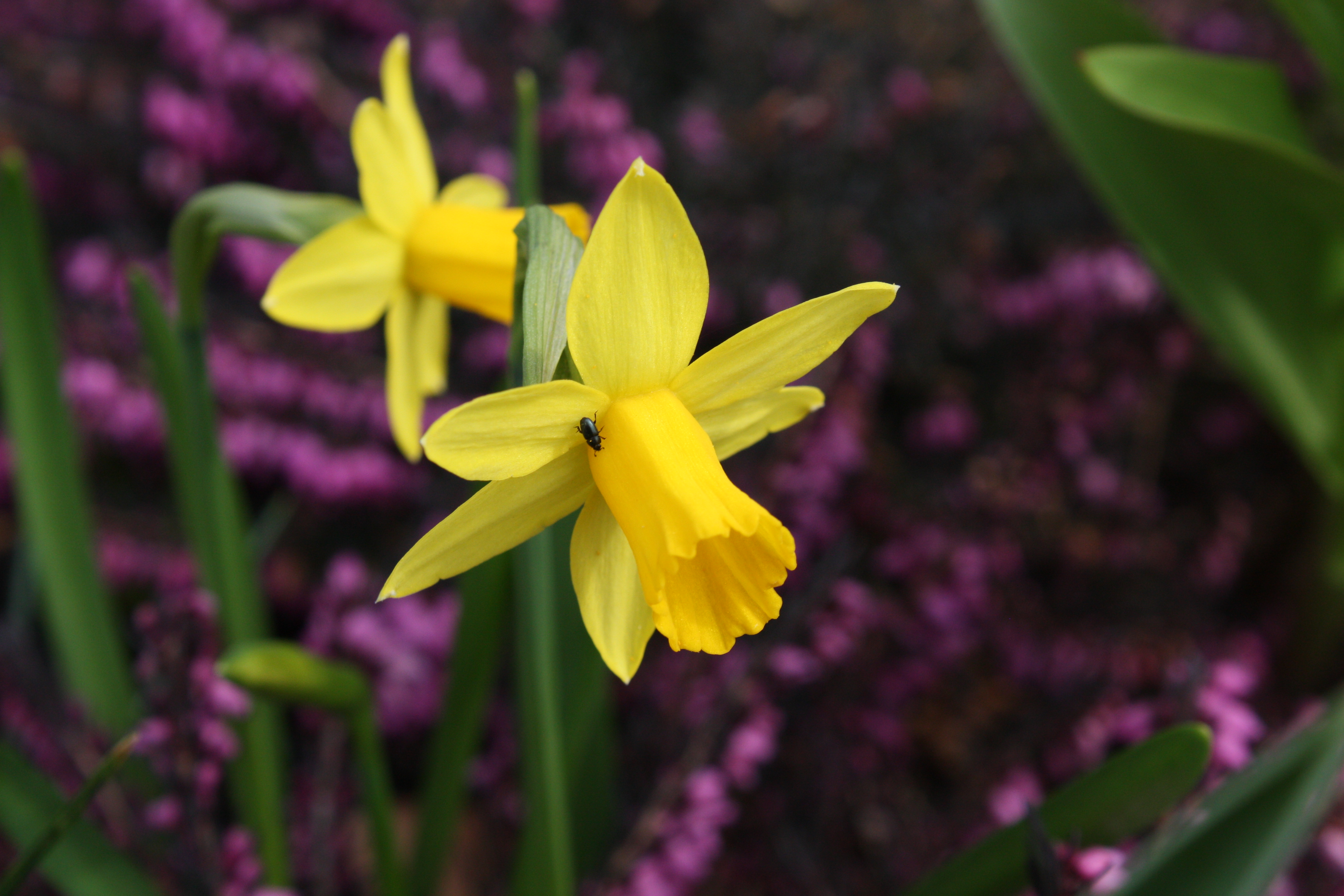 Narcissus cyclamineus 'Tête à Tête'—Erica carnea in the background